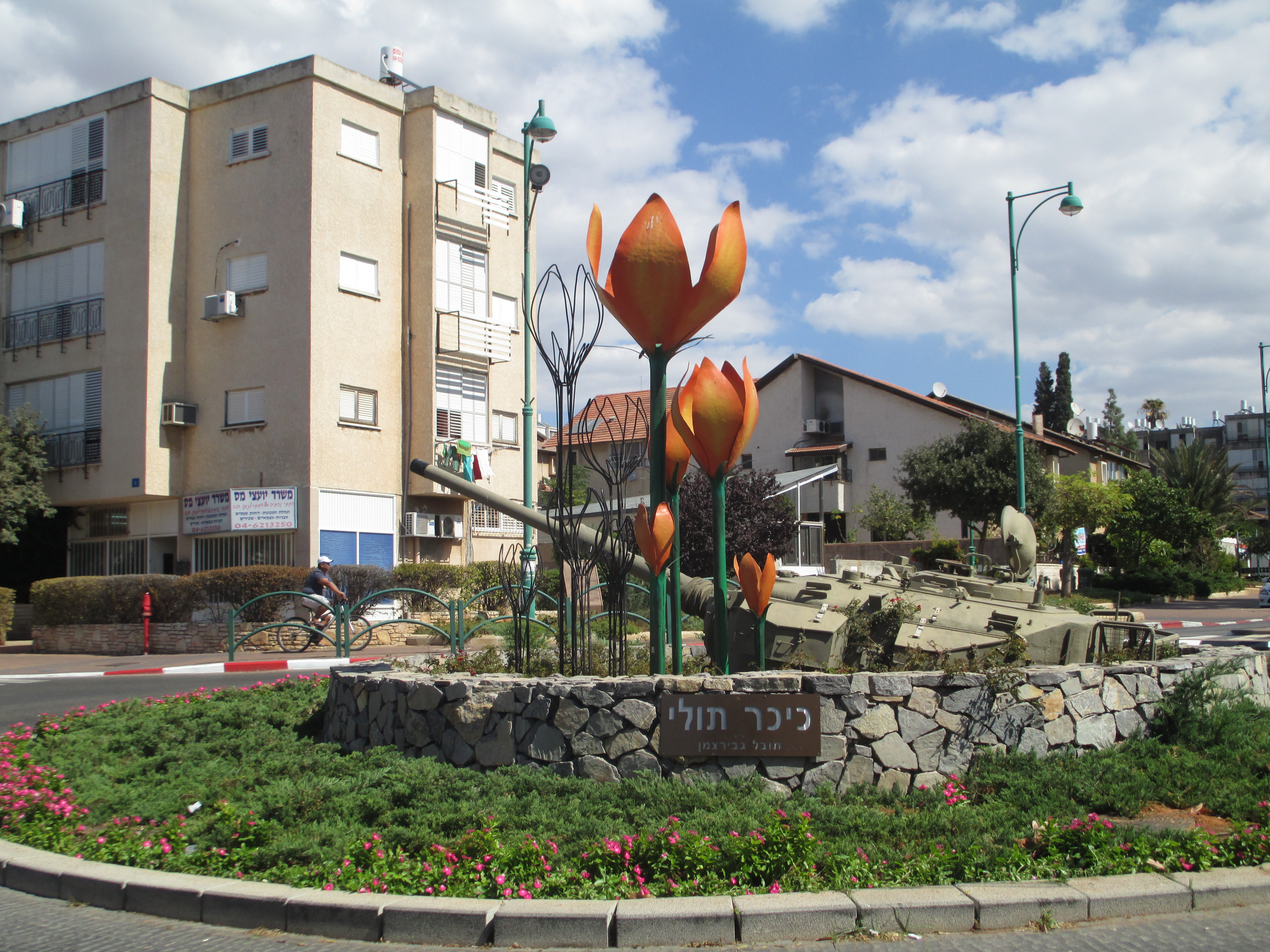 Tuli square in Hadera